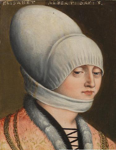 Margaret of Austria Duchess of Bavaria (Landshut)